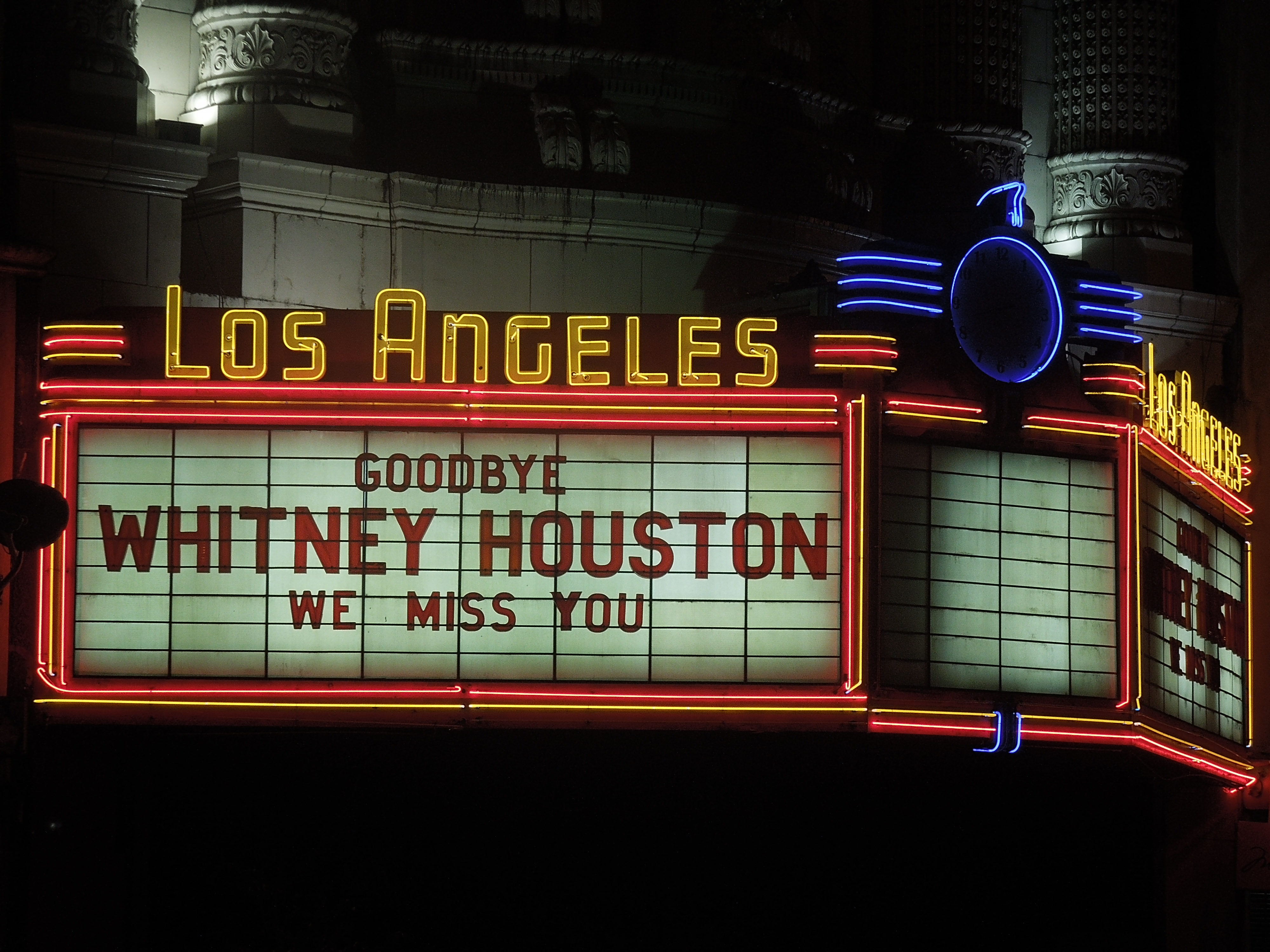 'Goodbye Whitney Houston - we miss you' after Whitney Houston's death on 11 February 2012.